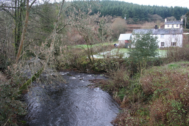 The Start of the Afon Ysgir, near to Pont-Faen, Powys, Wales. The village of Pontfaen sits on the confluence of the Ysgir Fechan and the Ysgir Fawr where they join to create the Afon Ysgir. This picture is taken from the bridge over the Ysgir Fawr and shows the Ysgir Fechan joining from the right.